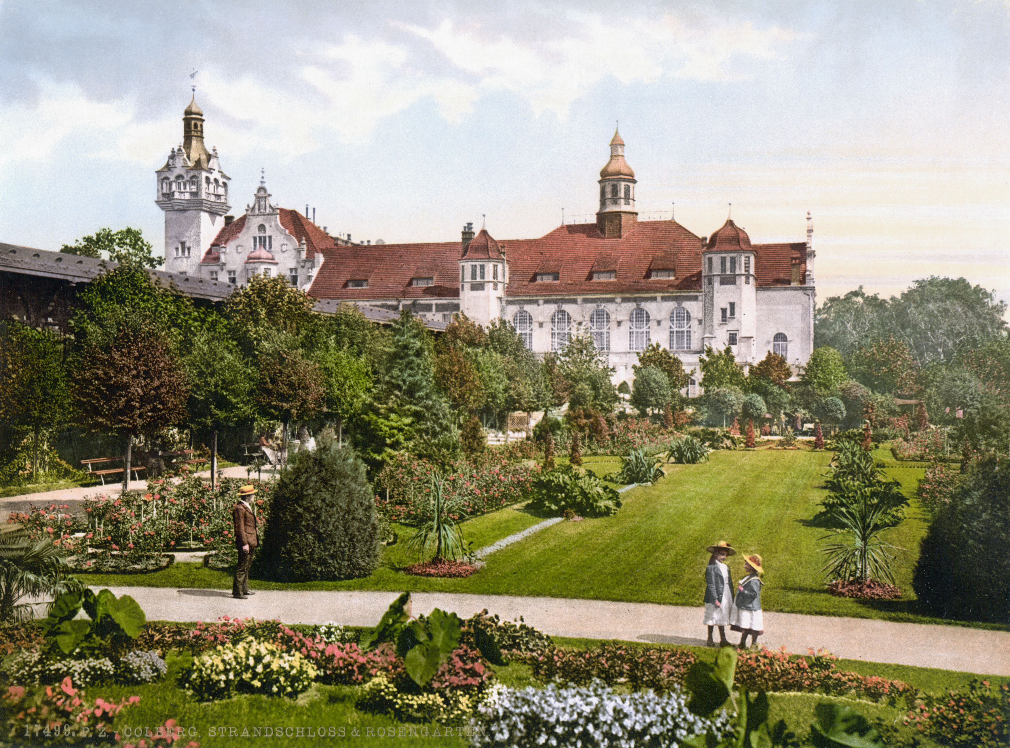 The garden of kursaal convention centre Strandschloss (Beach Castle) in Kolberg c. 1900, Pomerania, (actually Kołobrzeg, Poland), erected in 1899, destroyed in 1945.